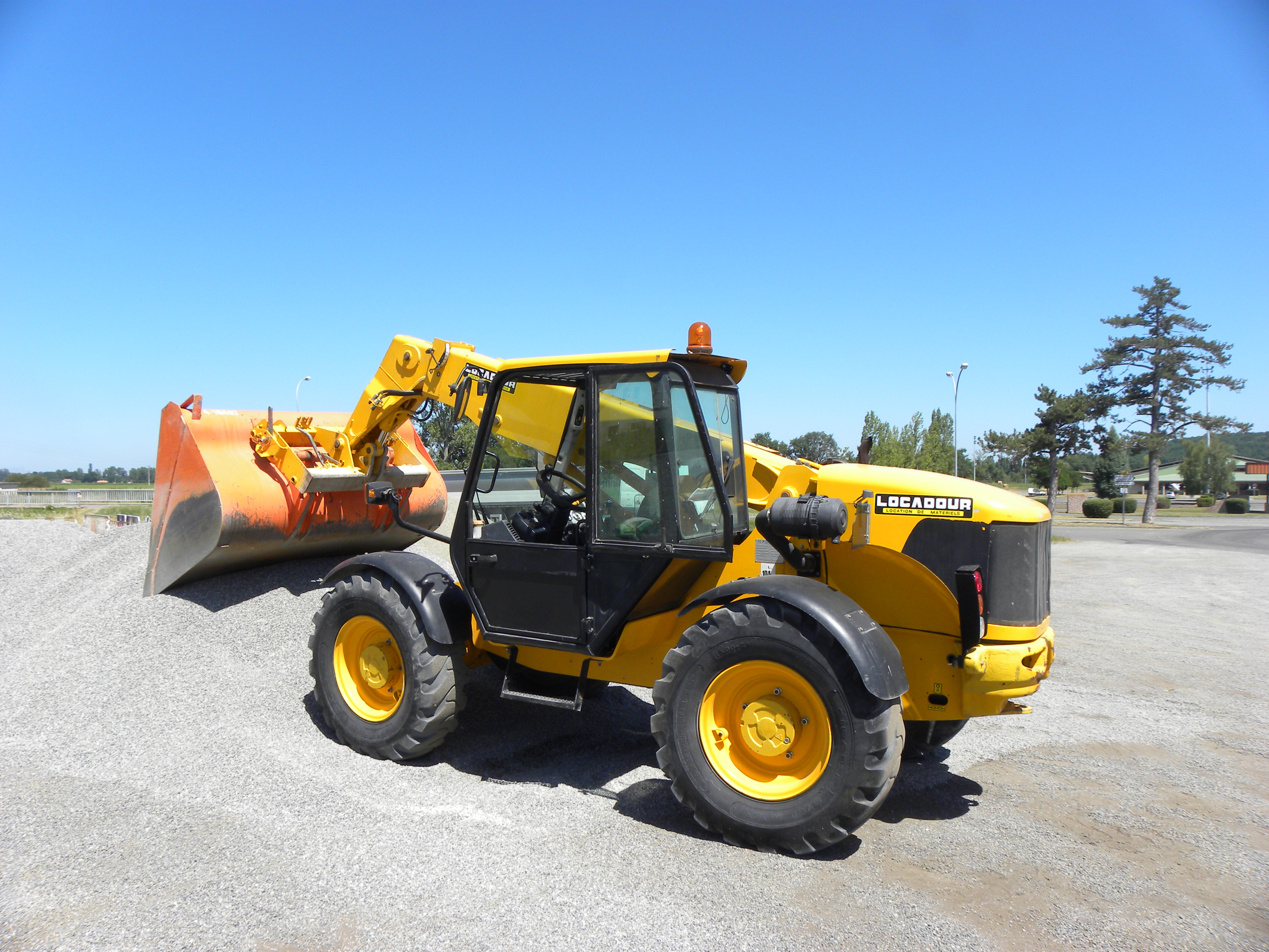 Telehandler Locadour L 104